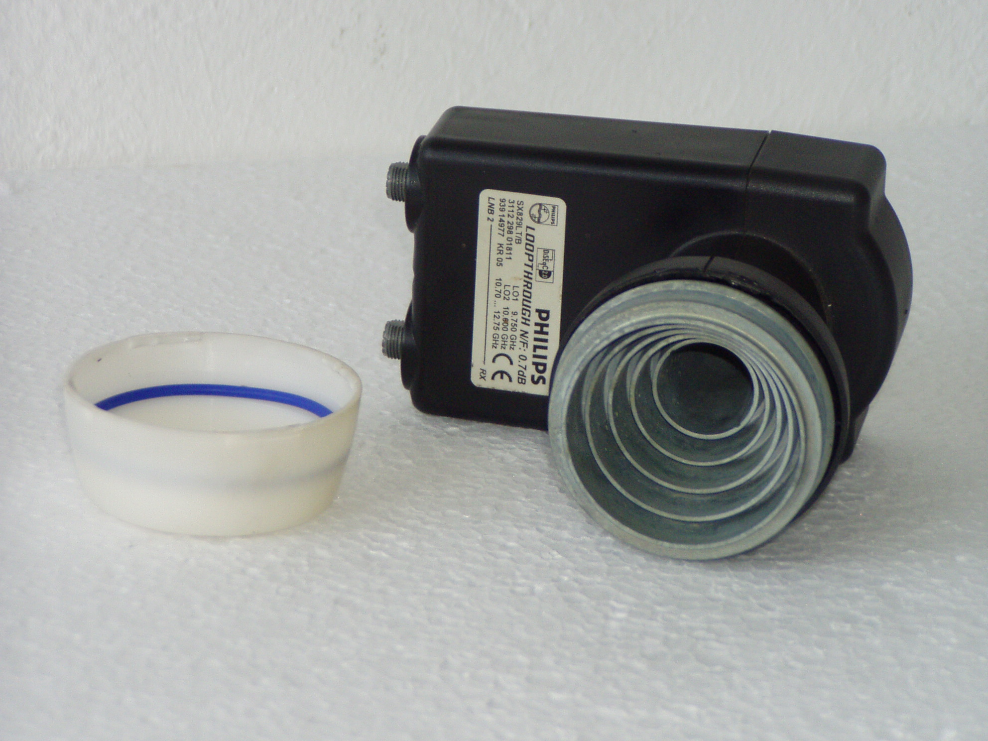 A low noise block downconverter (LNB), a device mounted on the front of a satellite dish which receives the microwave signal collected by the dish and transmits it into the house to the television set over a coaxial cable. The Ku-band microwave signal is funneled into a waveguide by the corrugated horn antenna visible on the front and converted to a radio frequency electric current. Then it is converted to a lower frequency by a local oscillator and mixer, and is output to a cable attached to one of the connectors on the right. The plastic shield (left) fits over the horn to prevent rain or snow from entering.